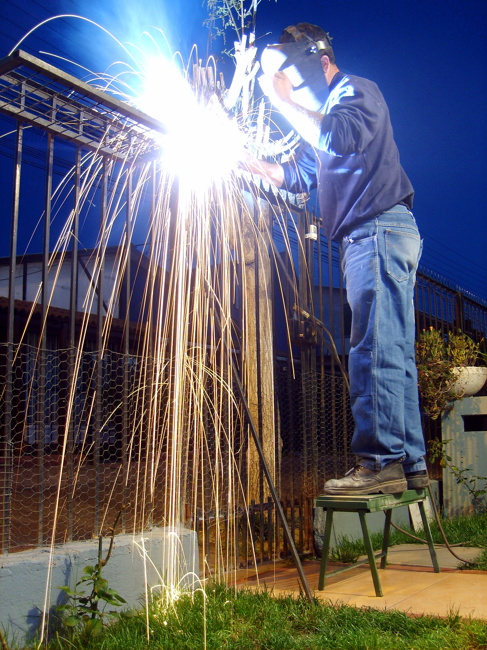 An arc welding.